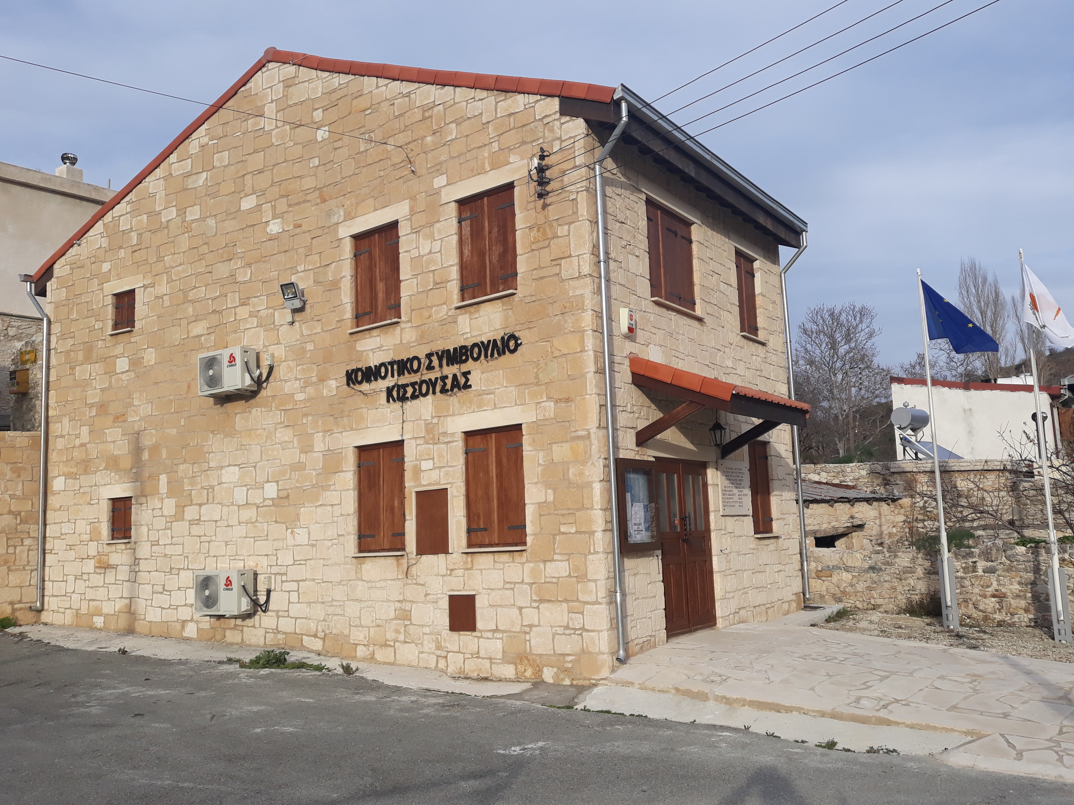 Kissousa community council offices.